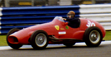 Froilan Gonzalez demonstrating a Ferrari 500 at the 2000 Coys International Historic Festival